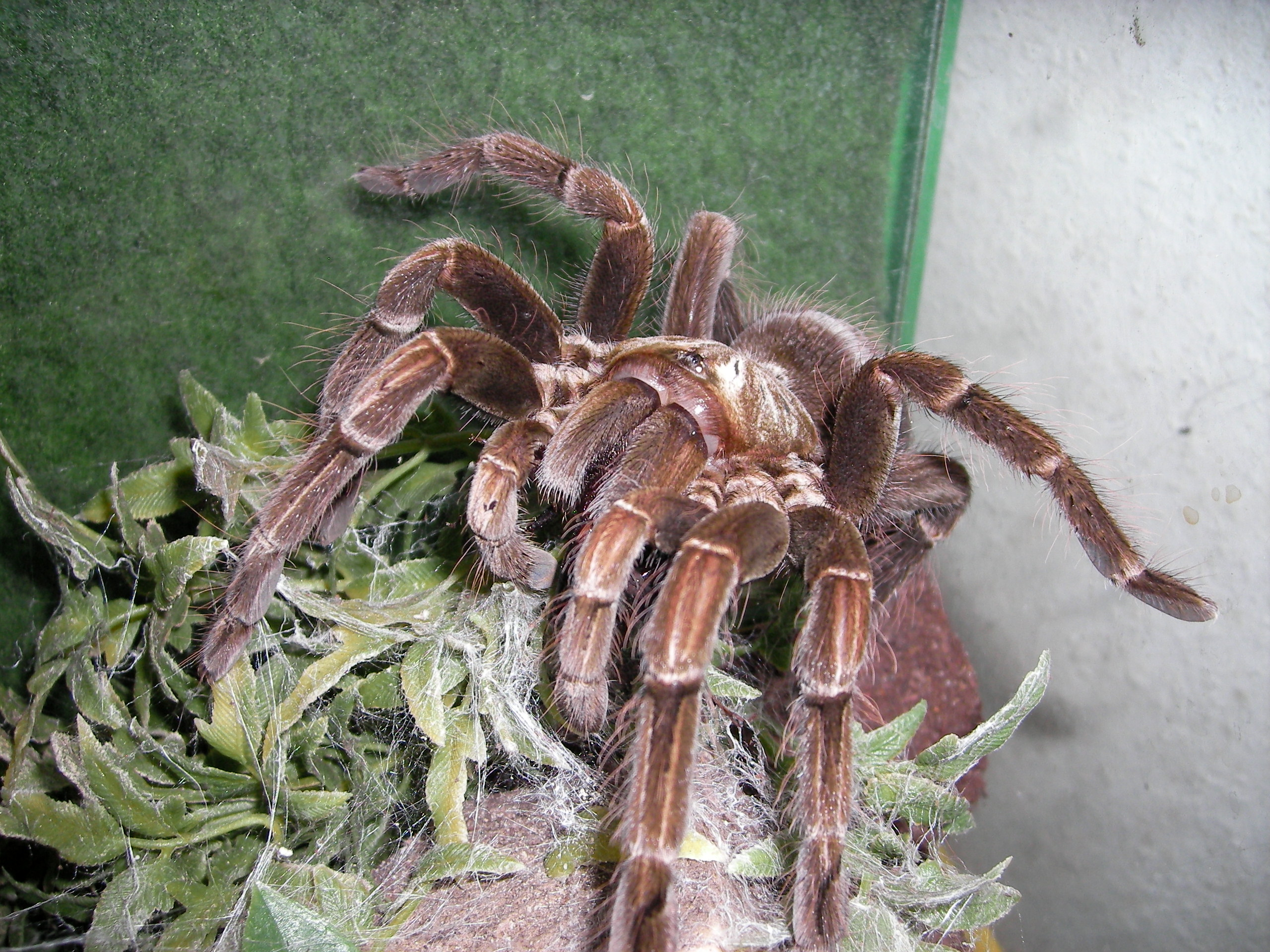 Brazilian Pink Bloom, Vitalius wacketi